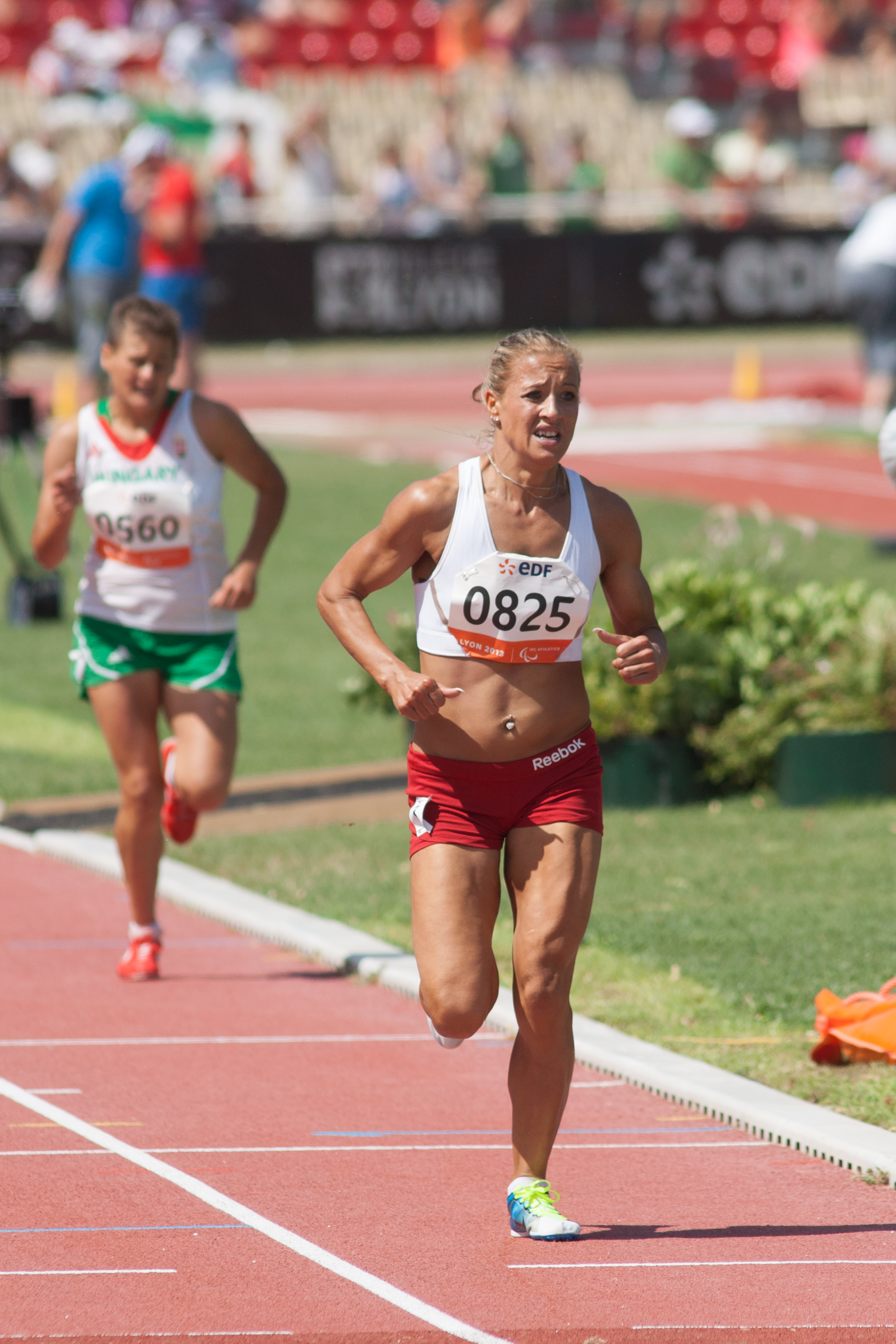 Women's 1500 m T20 final, Arleta Meloch of Poland (825) leads Ilona Biacsi of Hungary (560).